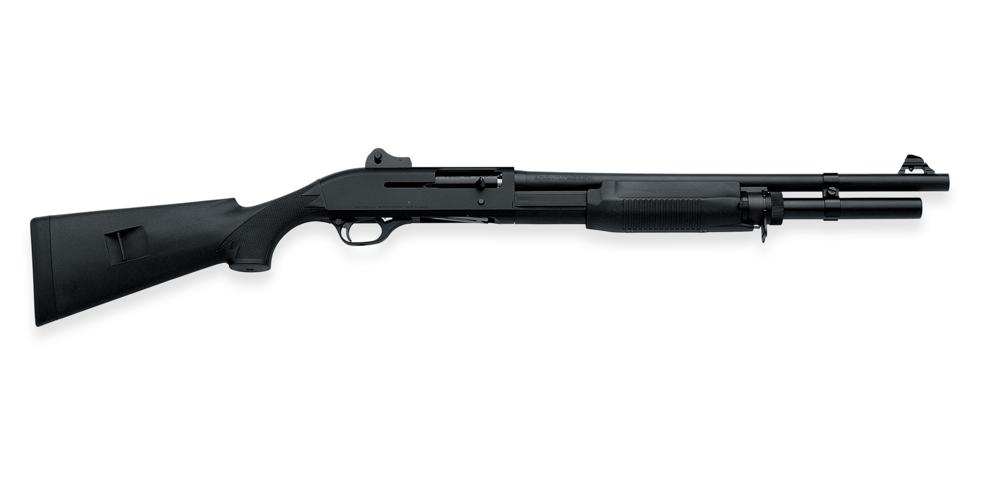 This is an image of the Beretta M3 shotgun.